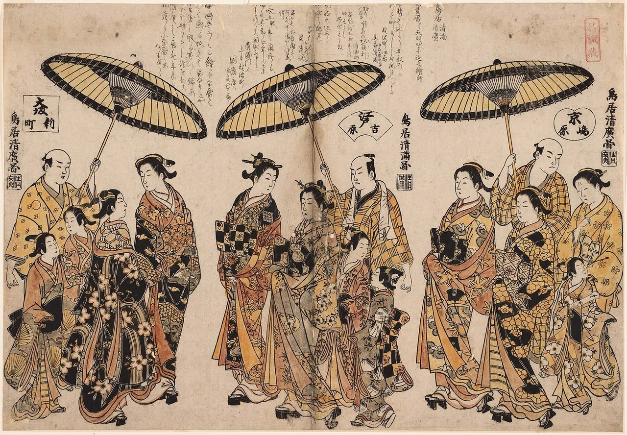 Hand colored woodblock print of Courtesans of the Three Cities : from Shimabara in Kyoto (R), Yoshiwara in Edo (C), and Shinmachi in Osaka (L)